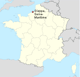 Location of Dieppe scene of the Dieppe Raid. Illustrating the location of the Dieppe Raid in the article Dieppe Raid.